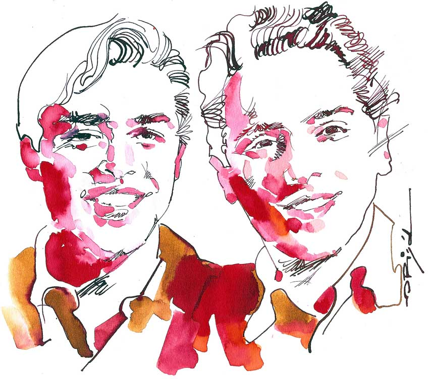 Larry Page & Sergey Brin (google tycons), art by Graziano Origa, pen&ink + ecoline, 20x15, 2008, printed on canvas 60x50, 2008